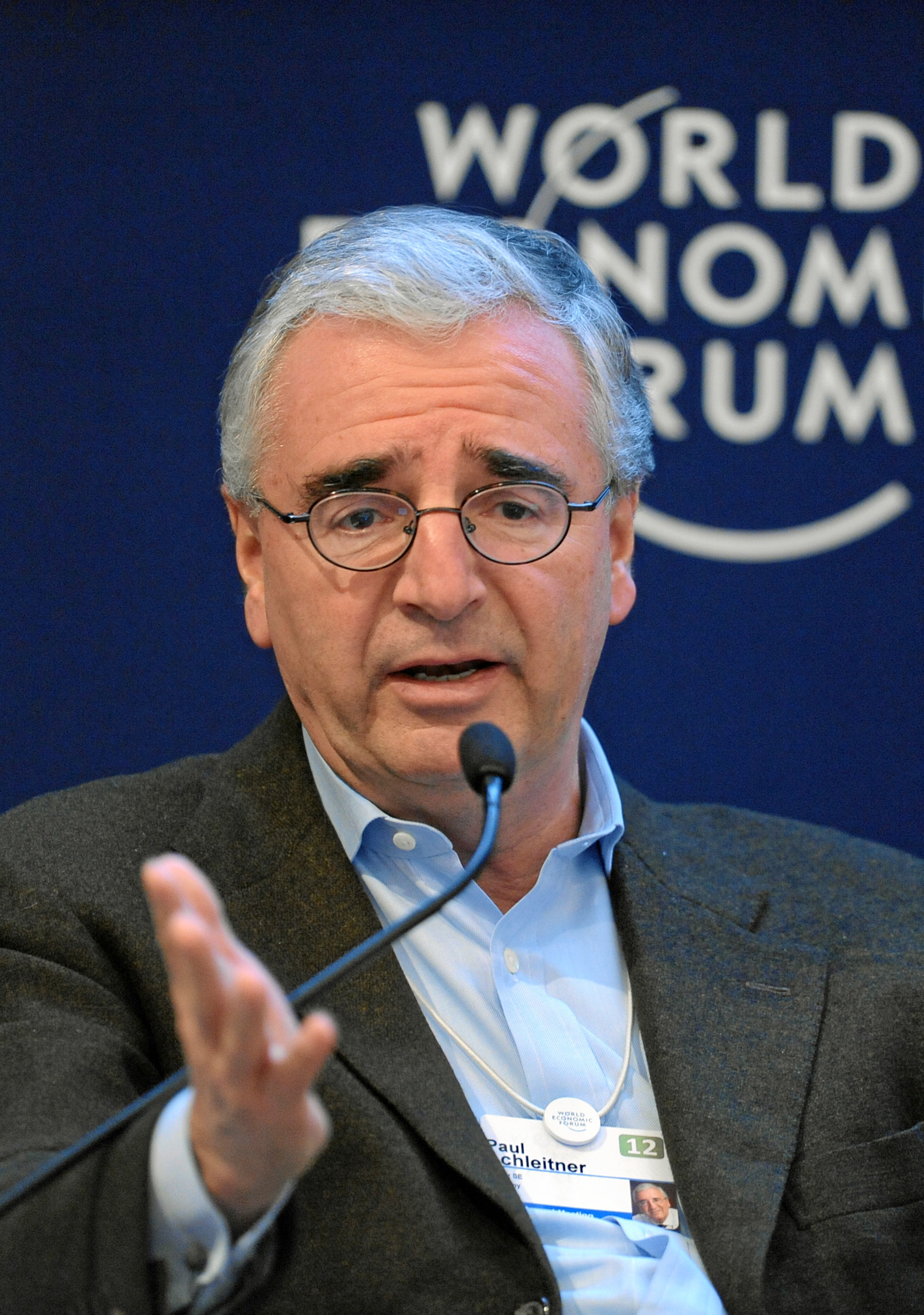 DAVOS/SWITZERLAND, 28JAN12 - Paul Achleitner, Member of the Board of Management, Allianz SE, Germany, is captured during the session 'Beyond Basel: Financial Institution Regulation' at the Annual Meeting 2012 of the World Economic Forum at the congress center in Davos, Switzerland, January 28, 2012. Copyright by World Economic Forum by Michael Wuertenberg